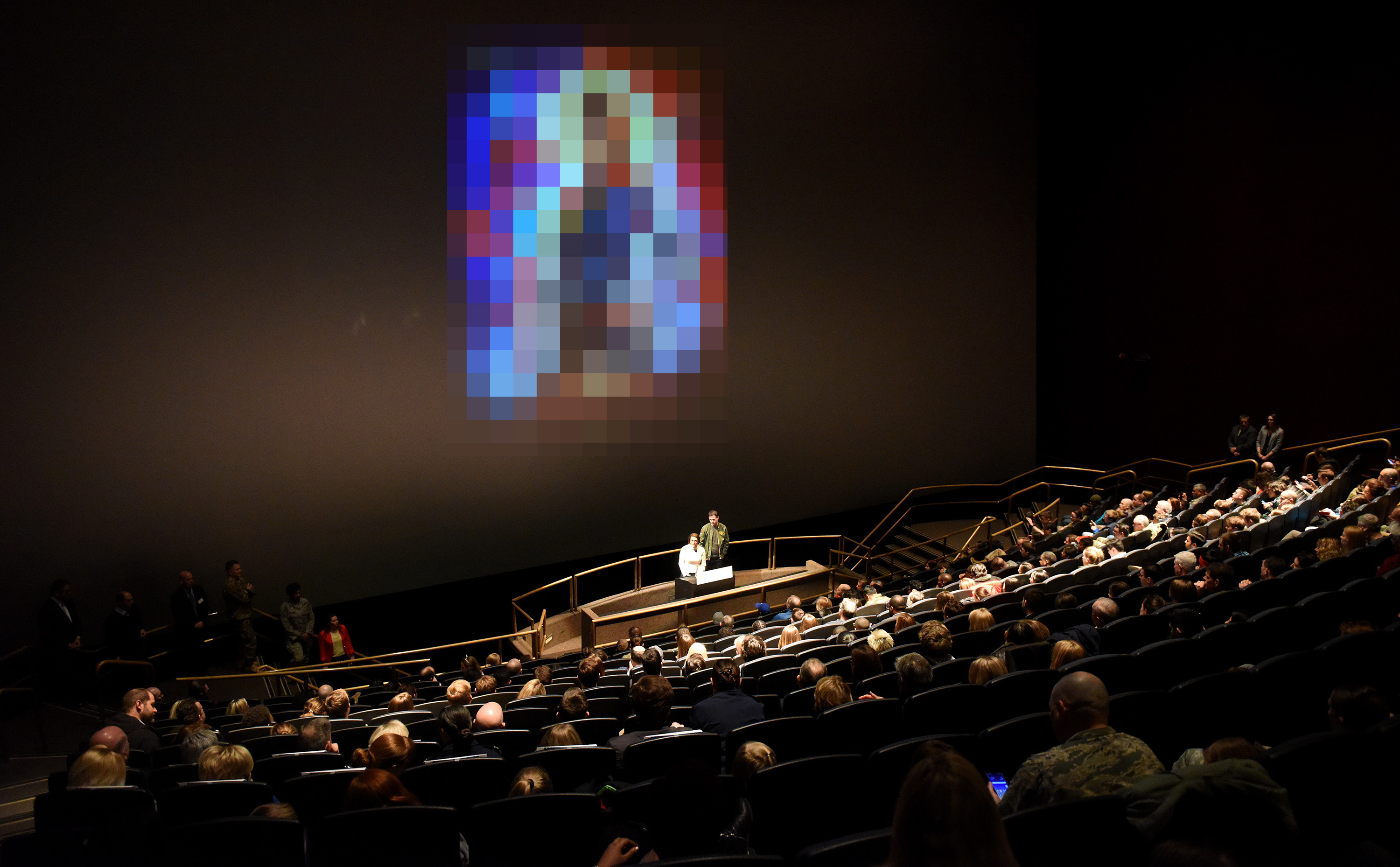 Captain Marvel Co-Directors Anna Boden and Ryan Fleck give remarks during a screening of Captain Marvel in Washington, D.C., March 7, 2019. The screening was held to highlight Air Force collaboration with Disney and the inspiration behind the main character's warrior ethos: "higher, further, faster."